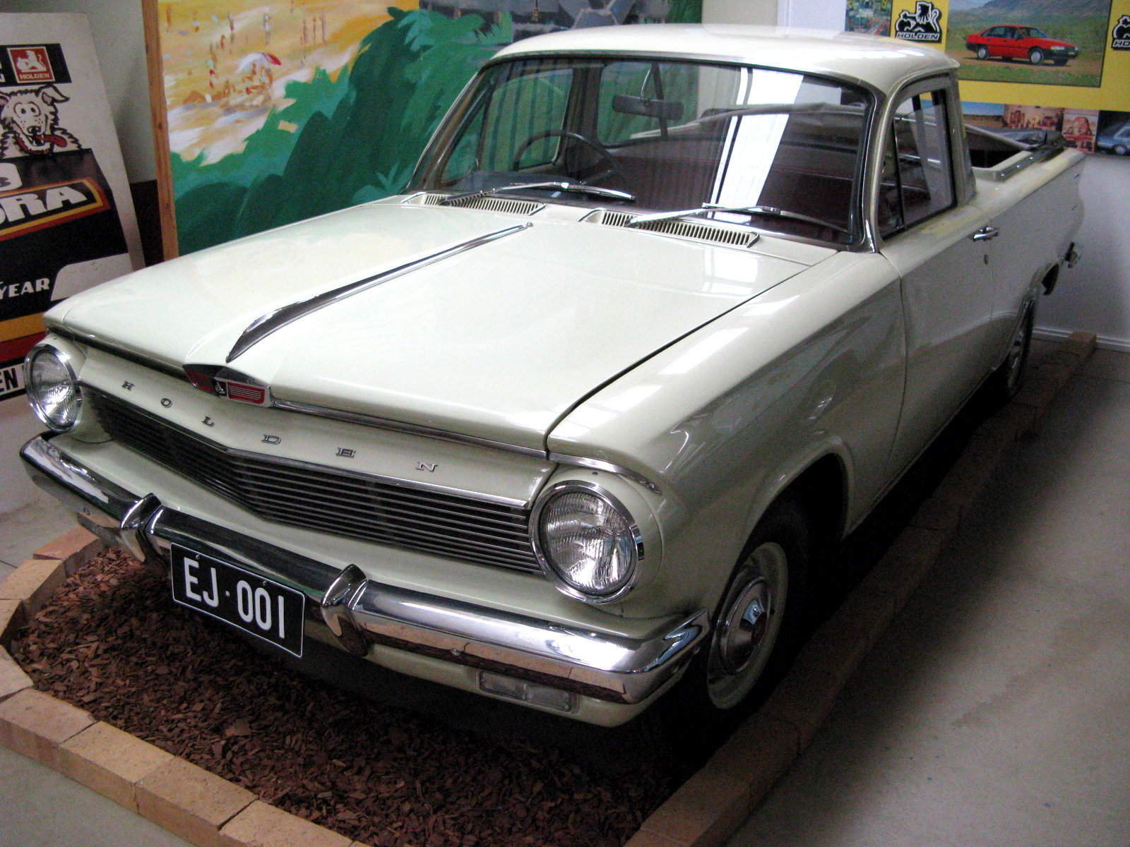 1963 Holden EJ utility, photographed at the National Holden Motor Museum, Echuca, Victoria, Australia.